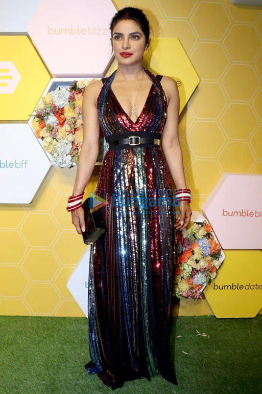 Priyanka Chopra attends Bumble app launch in Mumbai